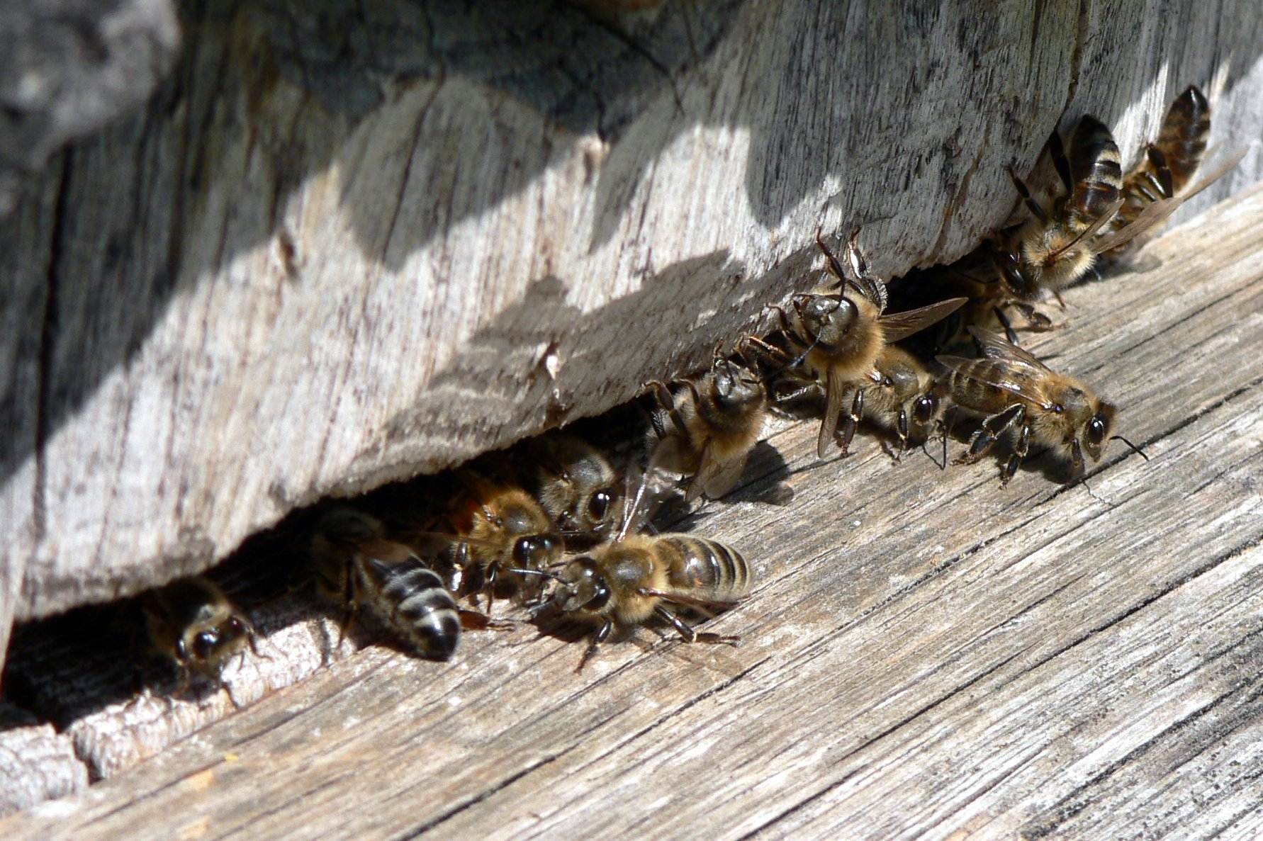 Bees at the hive entrance Author: Wojsyl